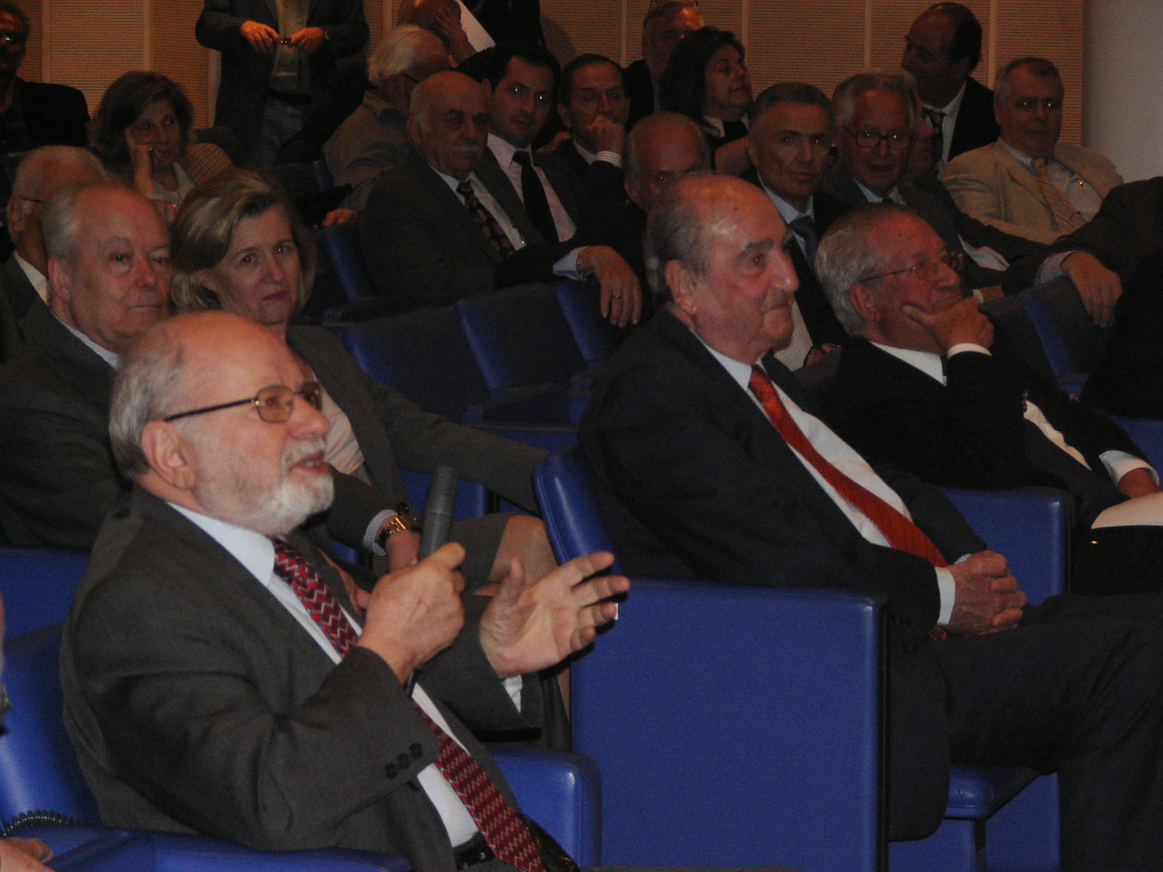 First row, left to right: Leonidas Kyrkos, the former Prime Minister of Greece Constantine Mitsotakis, journalist Giannis Marinos. Second row, leftmost: former minister Nikolaos Gkelestathis.